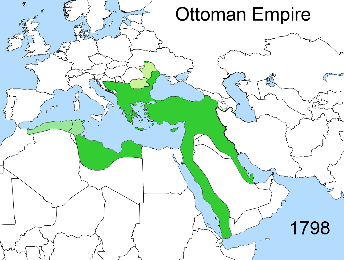 Territorial changes of the Ottoman Empire